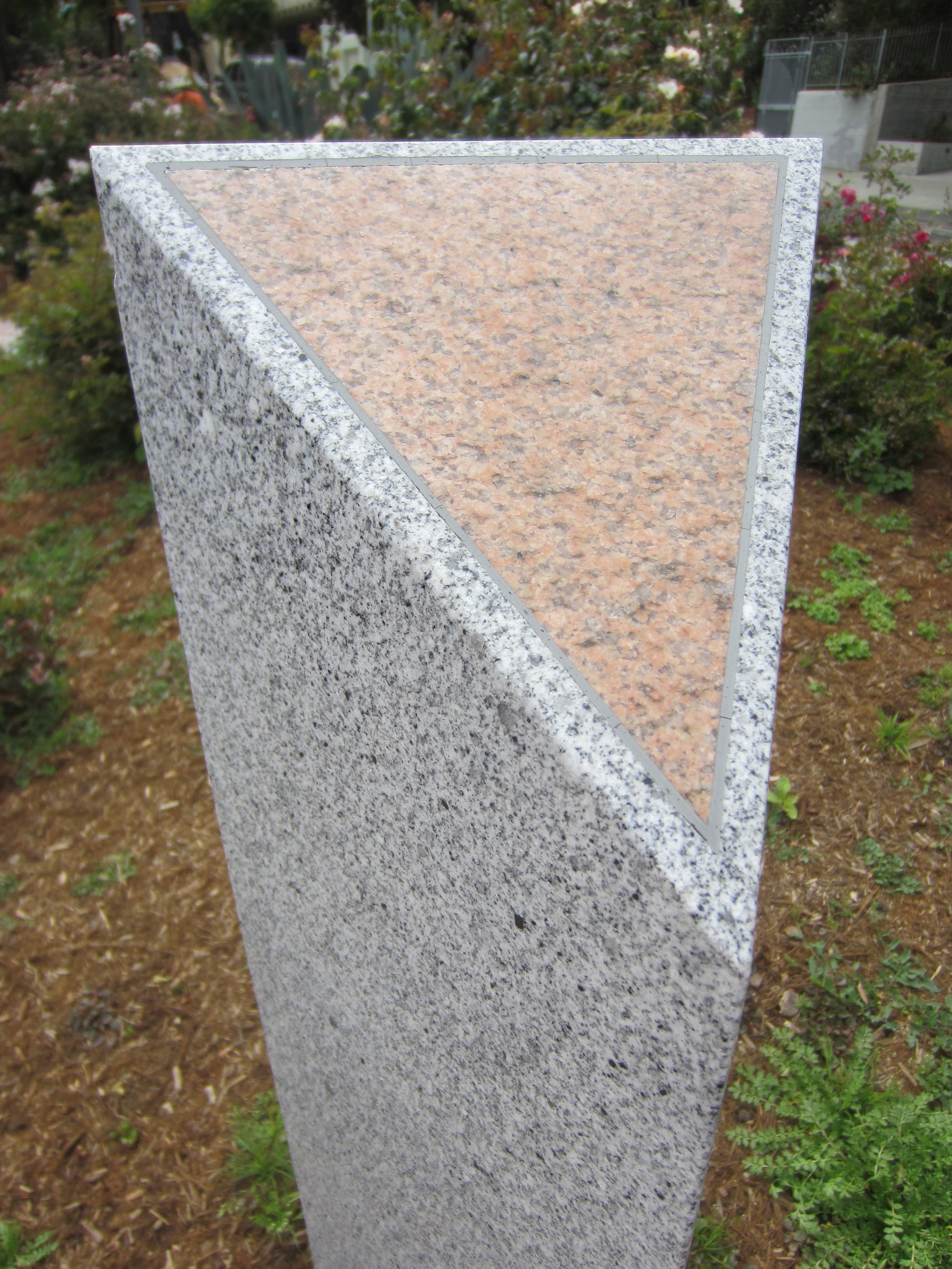 The Castro, San Francisco, California, United States (2013)